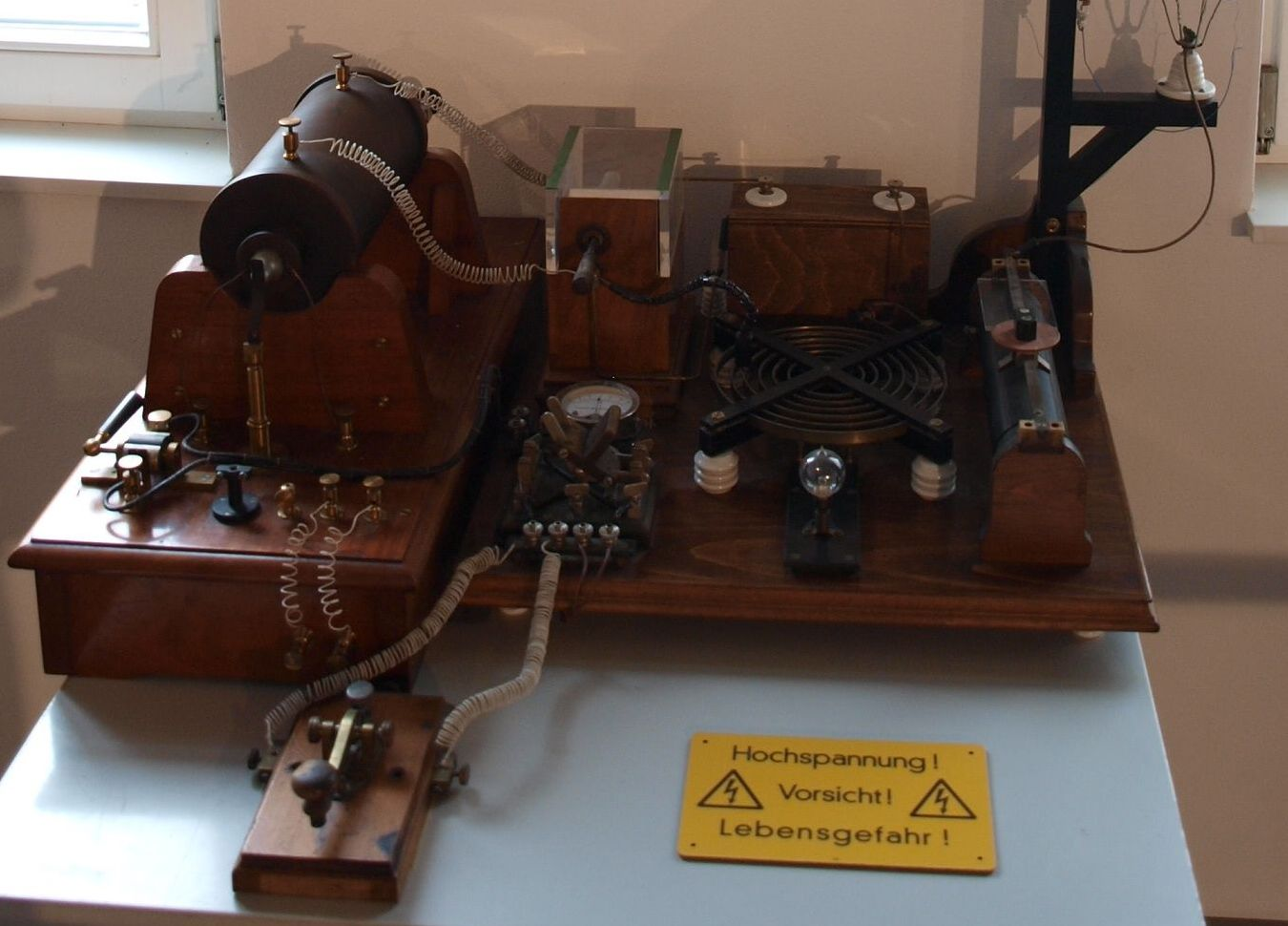 Working spark gap radiotelegraph transmitter for sending Morse code in the Electric Museum in Frastanz, Austria. Invented by Guglielmo Marconi in 1895, spark gap transmitters were used until about 1920. This low power induction coil transmitter worked off low voltage DC power, and may have been a shipboard transmitter.